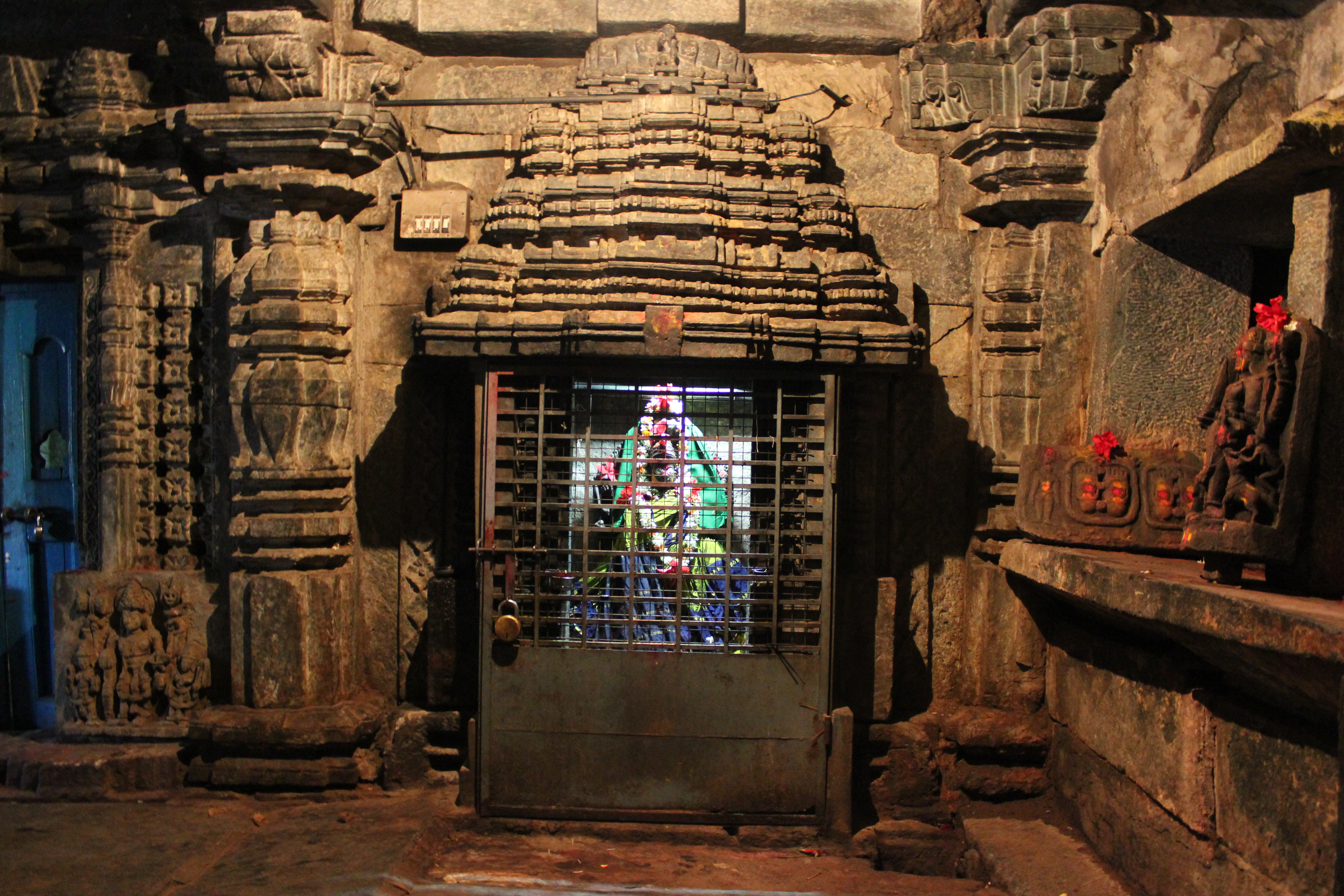 This photograph was taken by me at the Rameshvara temple (also spelt Rameshwara or Ramesvara) at Kudli in Shivamogga district (also spelt Shimoga) in Karnataka state, India. The temple was built in the 12th century during the rule of the Hoysala empire.